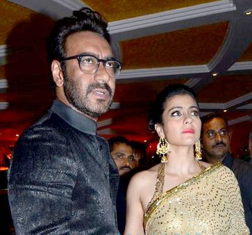 Ajay Devgn(left) and Kajol(right) at a wedding ceremony, 2013.